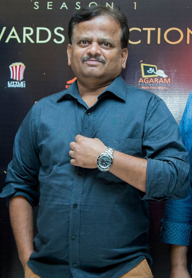 KV Anand at MovieBuff First Clap Awards Function